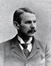 Henry St. George Tucker III, US Representative from Virginia